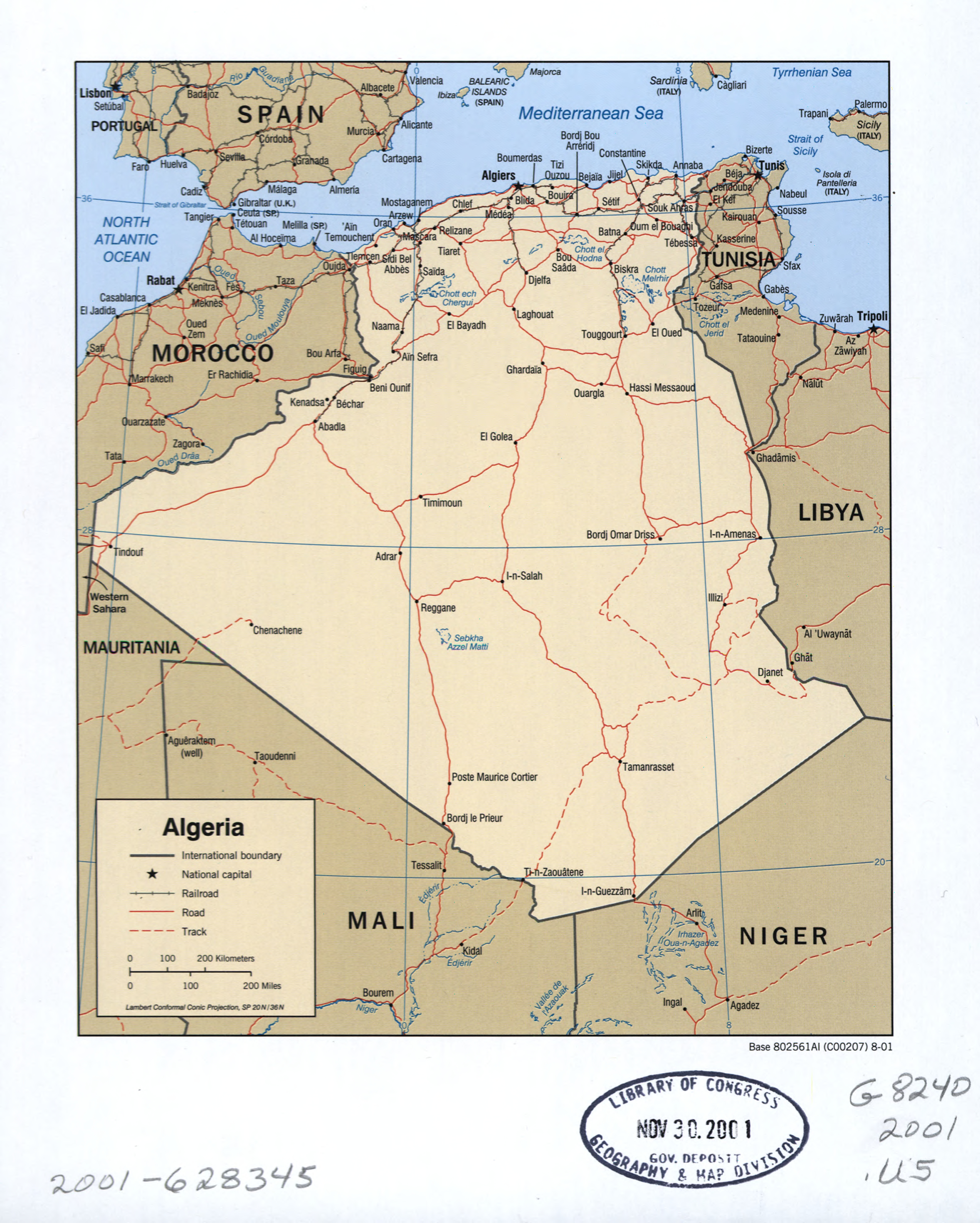 "Base 802561AI (C00207) 8-01." Scale [ca. 1:14,000,000] ; Lamber conformal conic proj., SP 20N/36N (W 100--E 130/N 400--N 160).